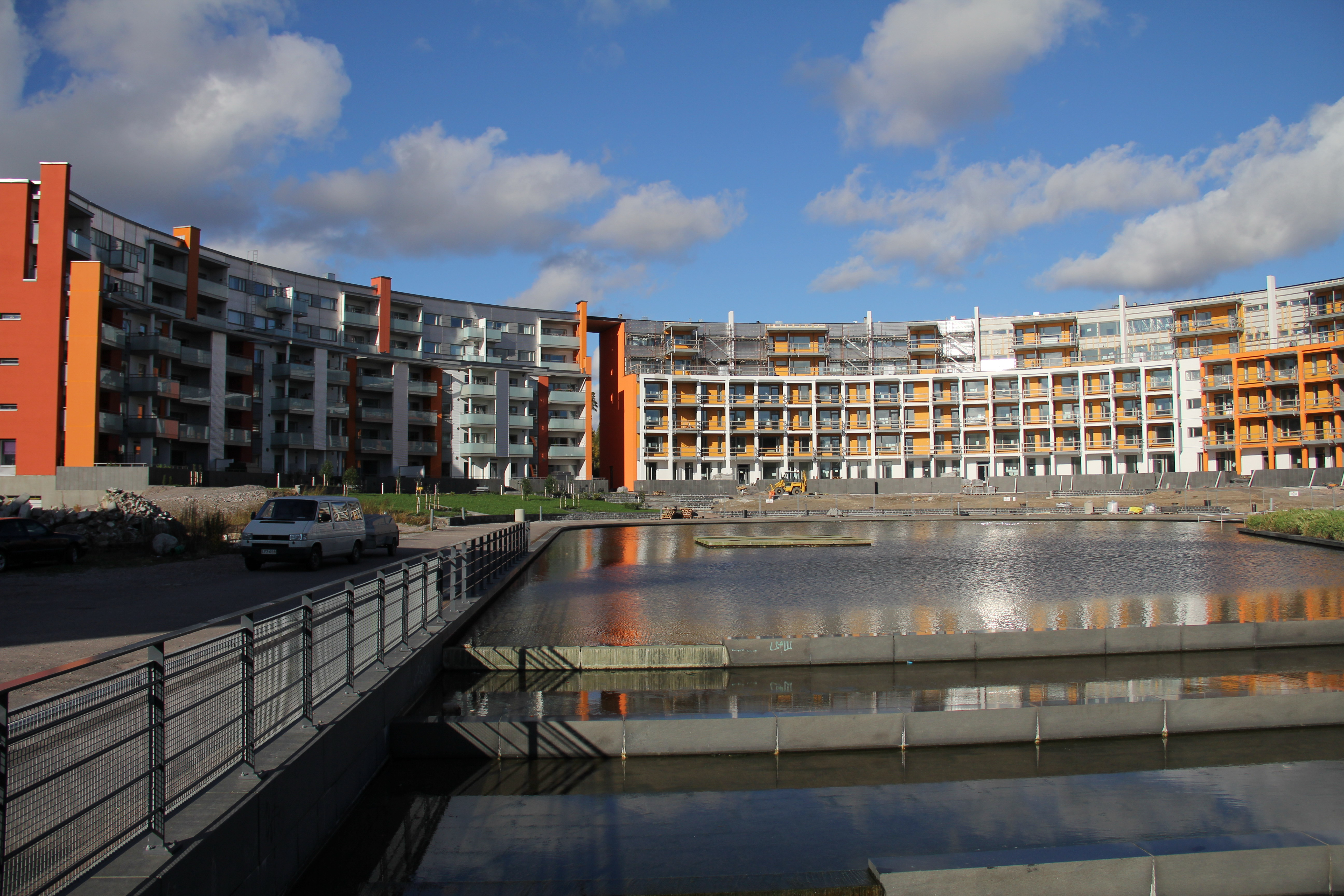 Uutela Canal, Aurinkolahti, Vuosaari, Helsinki, Finland. Apartment buildings curving round the uppermost part of the canal. Nortward.